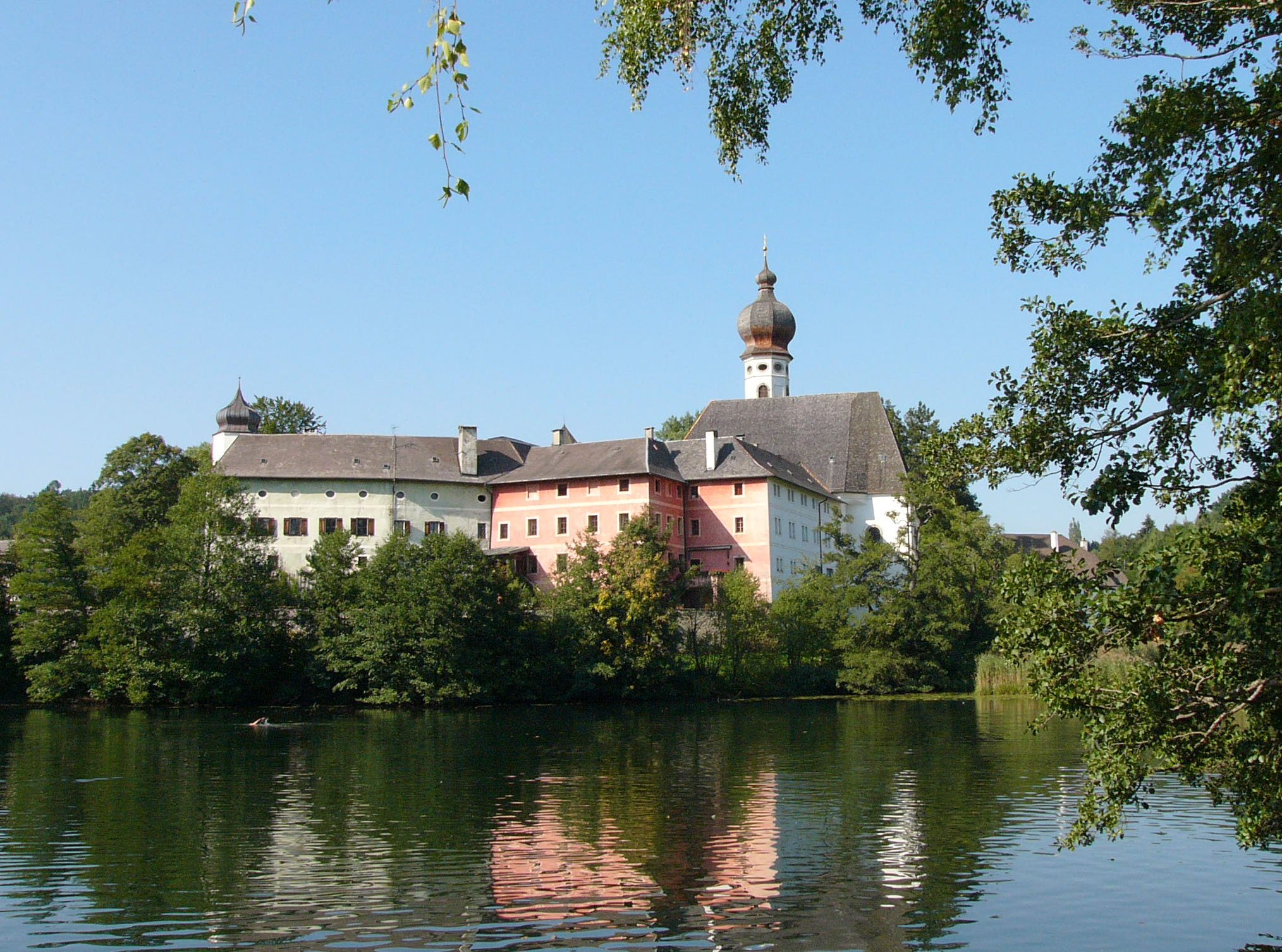 Kloster Högelwörth near Anger, Bavaria, Germany